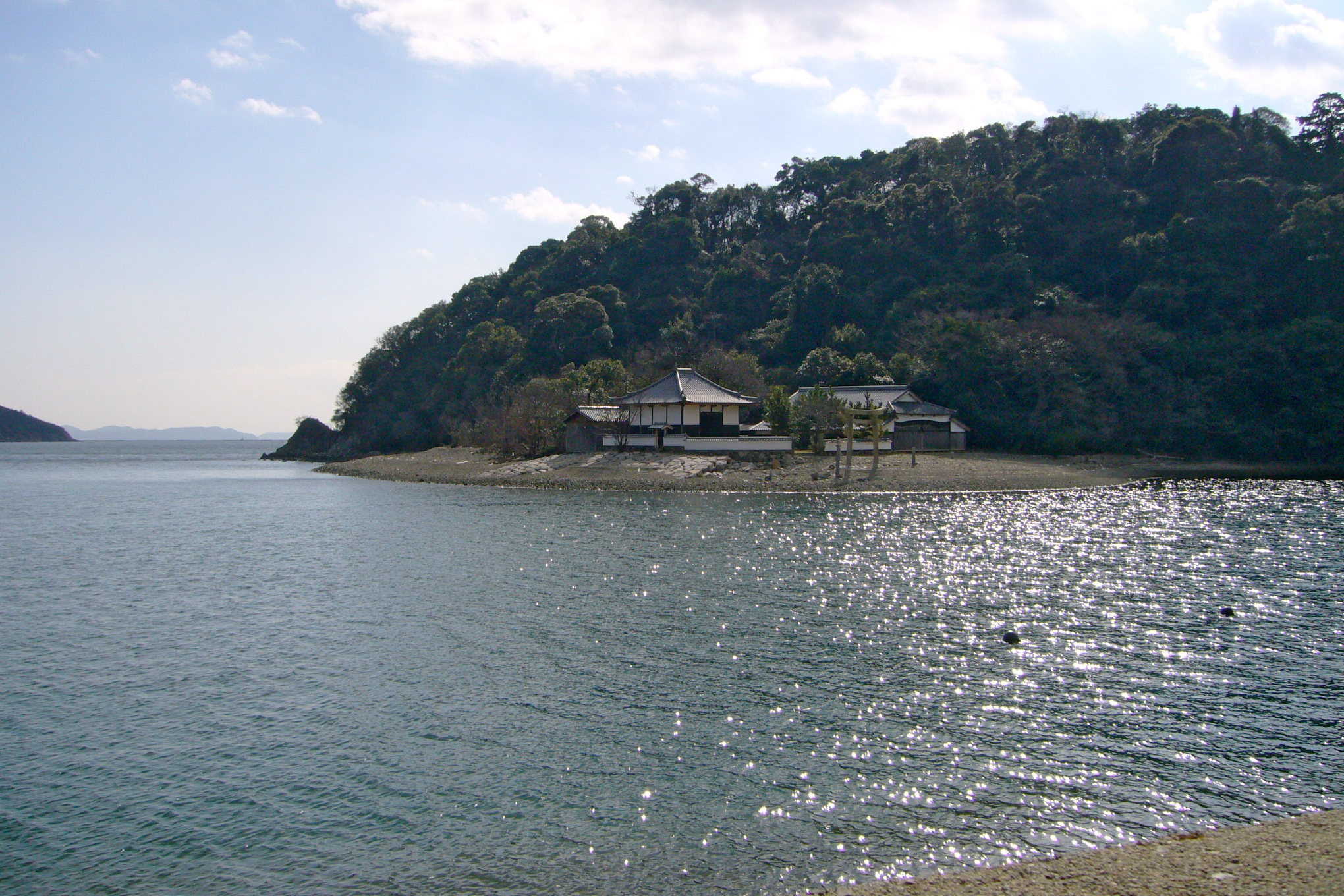 Ikishima view from Sakoshi Harbor in Ako, Hyogo prefecture, Japan